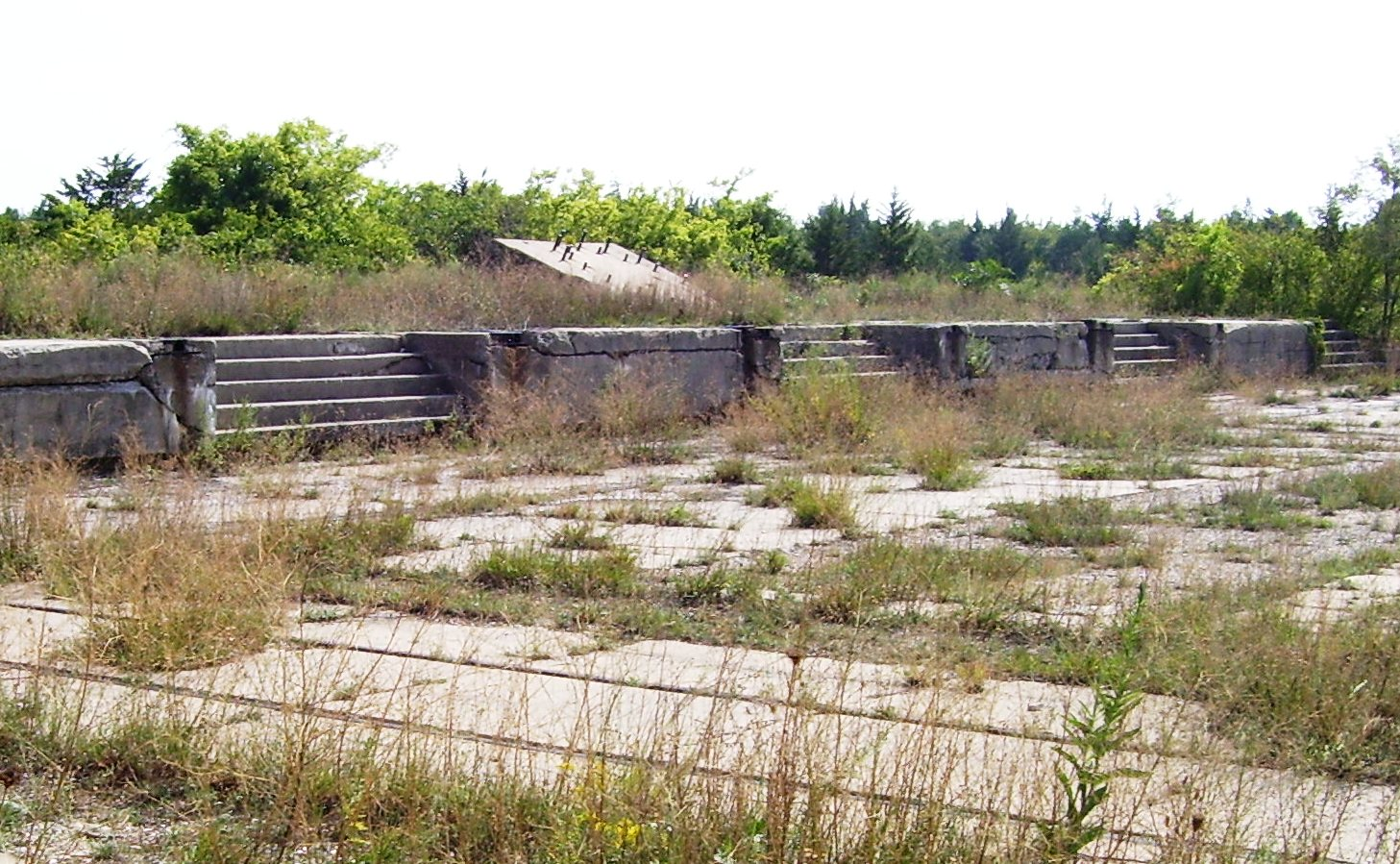 Abandoned concrete gun platforms, formerly part of the Proof Battery of the Sandy Hook Proving Ground, in use from 1901-1919. Soldiers used a 20-foot gantry crane on rails to lift guns and carriages onto the platforms to be tested, or "proved". Sandy Hook is now part of the Gateway National Recreation Area; these platforms are near North Beach.